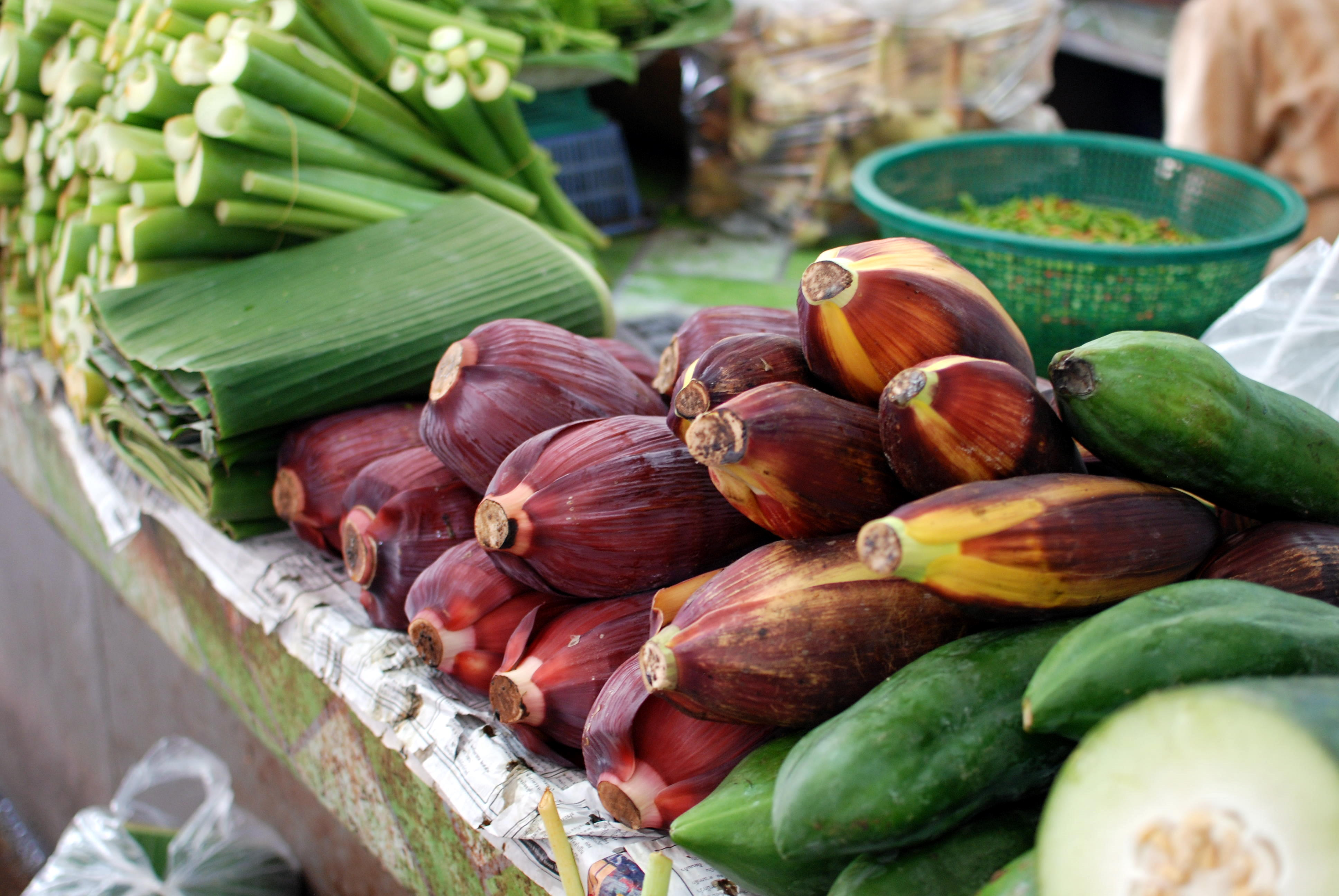 Purplish banana flowers (Thai: hua plee), with behind them folded banana leaves (Thai: bai kluay), are commonly sold in Thai markets. Thais use banana flowers raw in such dishes as yum hua plee (a spicy salad with thinly sliced uncooked banana flowers) or steamed whole as one of the ingredients eaten with the spicy Thai chilli dip called nam phrik kapi. It can also feature in soups such as tom yum or deep fried as tod mun hua plee. Steamed, the taste of the flowers is somewhat similar to that of artichokes. Banana leaves are often used as (ecologically friendly) disposable food containers or as "plates". Steamed with dishes such as hor mok pla it imparts a subtle sweet flavour. It is often also seen used as a wrapping for grilling food and as such it contains the juices of the wrapped food and prevents the food from getting burned whilst at the same time giving off a subtle flavour.